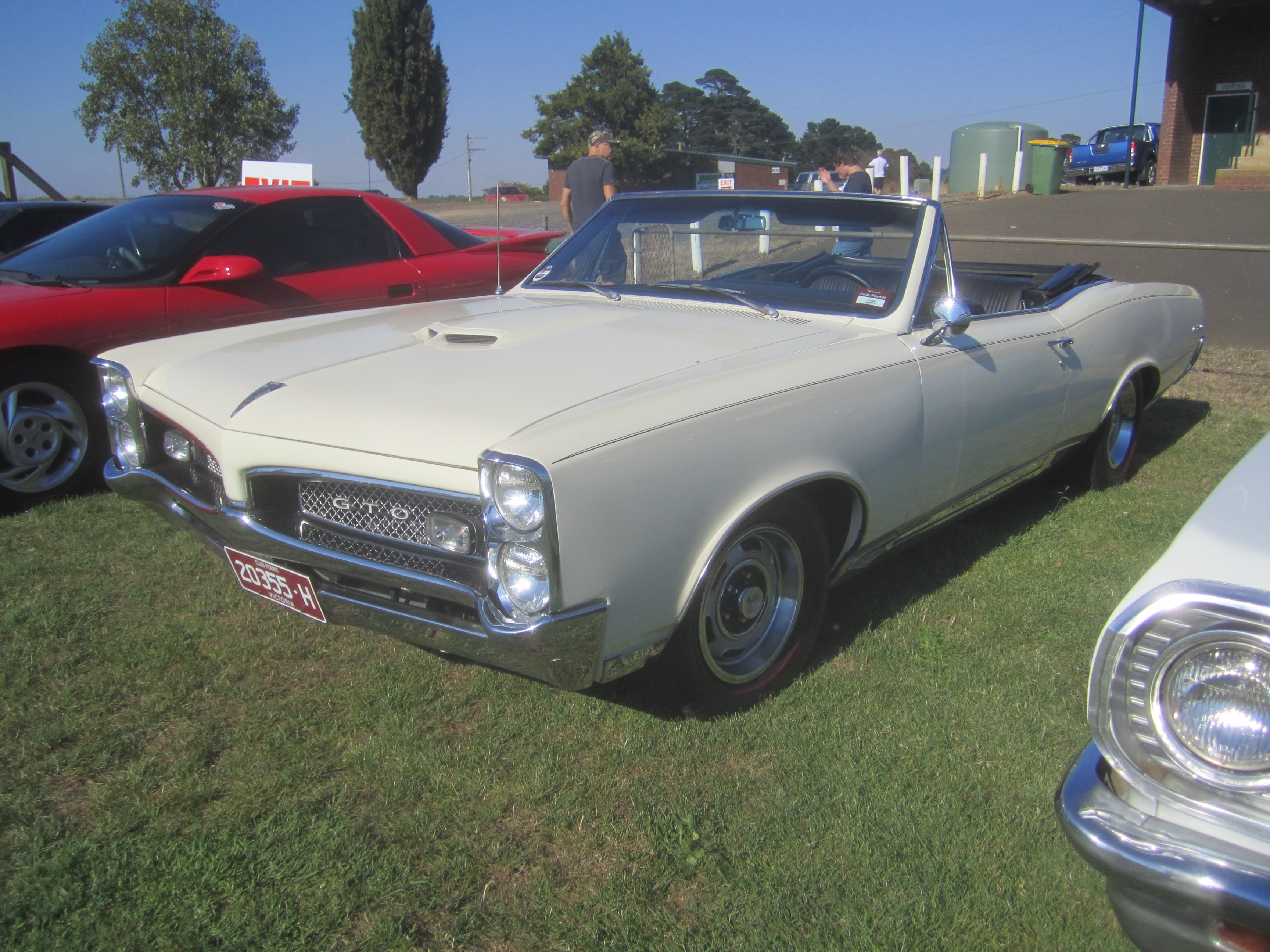 Pontiac wanted a performance package for its Tempest using the larger 325hp 389 cu in V8, so the GTO option was introduced in 1964, it was available on the 2 door coupe, hardtop coupe and convertible. It also got dual exhaust, chrome valve covers and air cleaner, floorshift with Hurst shifter, stiffer springs and a hood scoop. 348hp Tri Power was an option The GTO was restyled in 1965, slightly longer and featuring Pontiacs characteristic stacked quad headlights. A facelift in 1966 and again in 1967 saw new grille and tail lights. Engine capacity was increased in 1967 to 400 cu in and available in 3 models; 255hp economy, 335hp standard and 360hp high output.